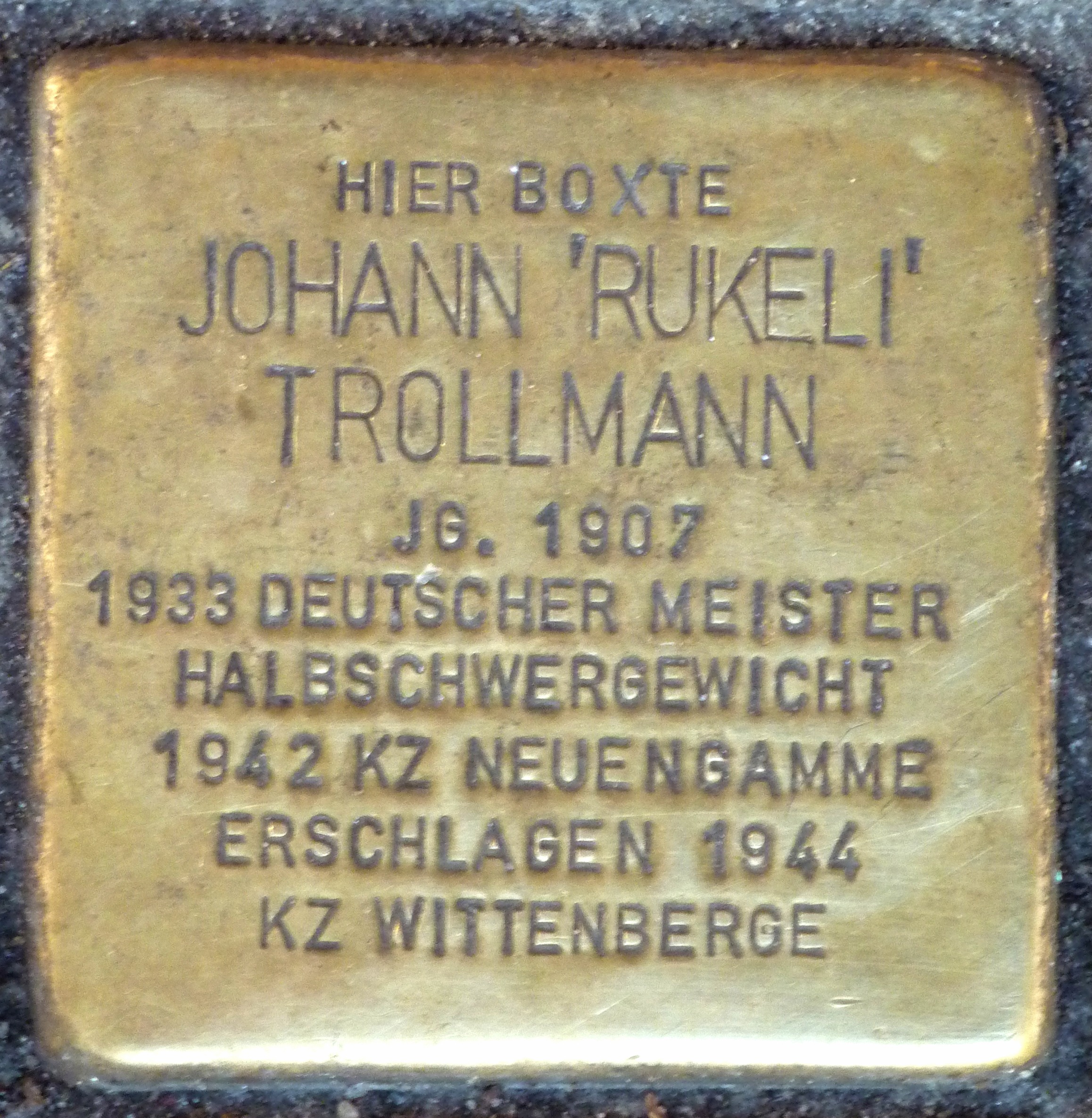 Stolperstein" for Johann "Rukeli" Trollmann in front of the theater building at Schulterblatt 71, Hamburg.